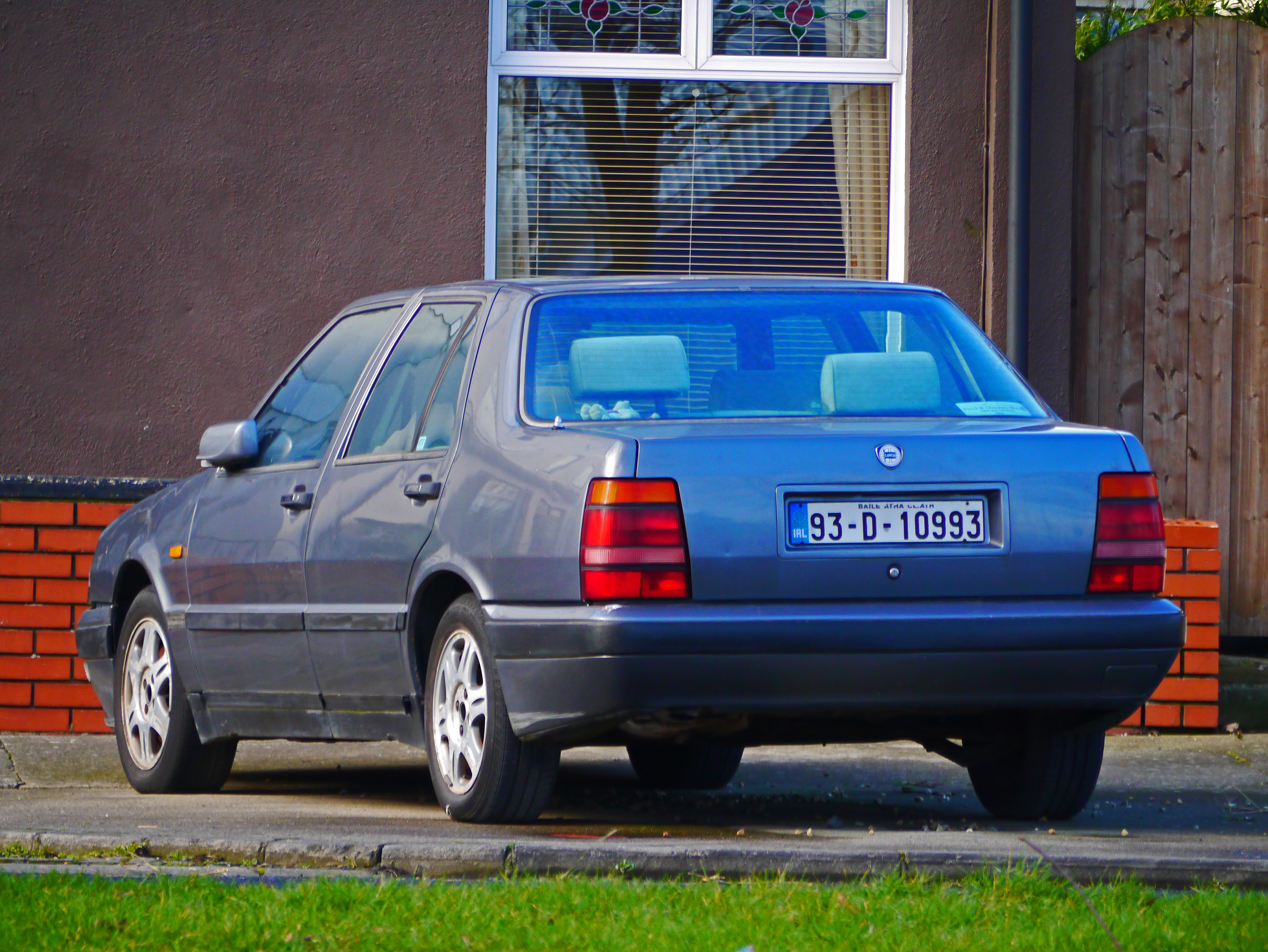 1993 Lancia Thema 2.0 Turbo 16V. Still in the same spot... ! 4-cylinder 1,995 cc engine (151 kW; 202 bhp) - Top speed: 230 km/h (143 mph).